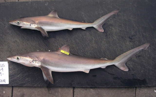 Night sharks (Carcharhinus signatus) caught in the Gulf of Mexico